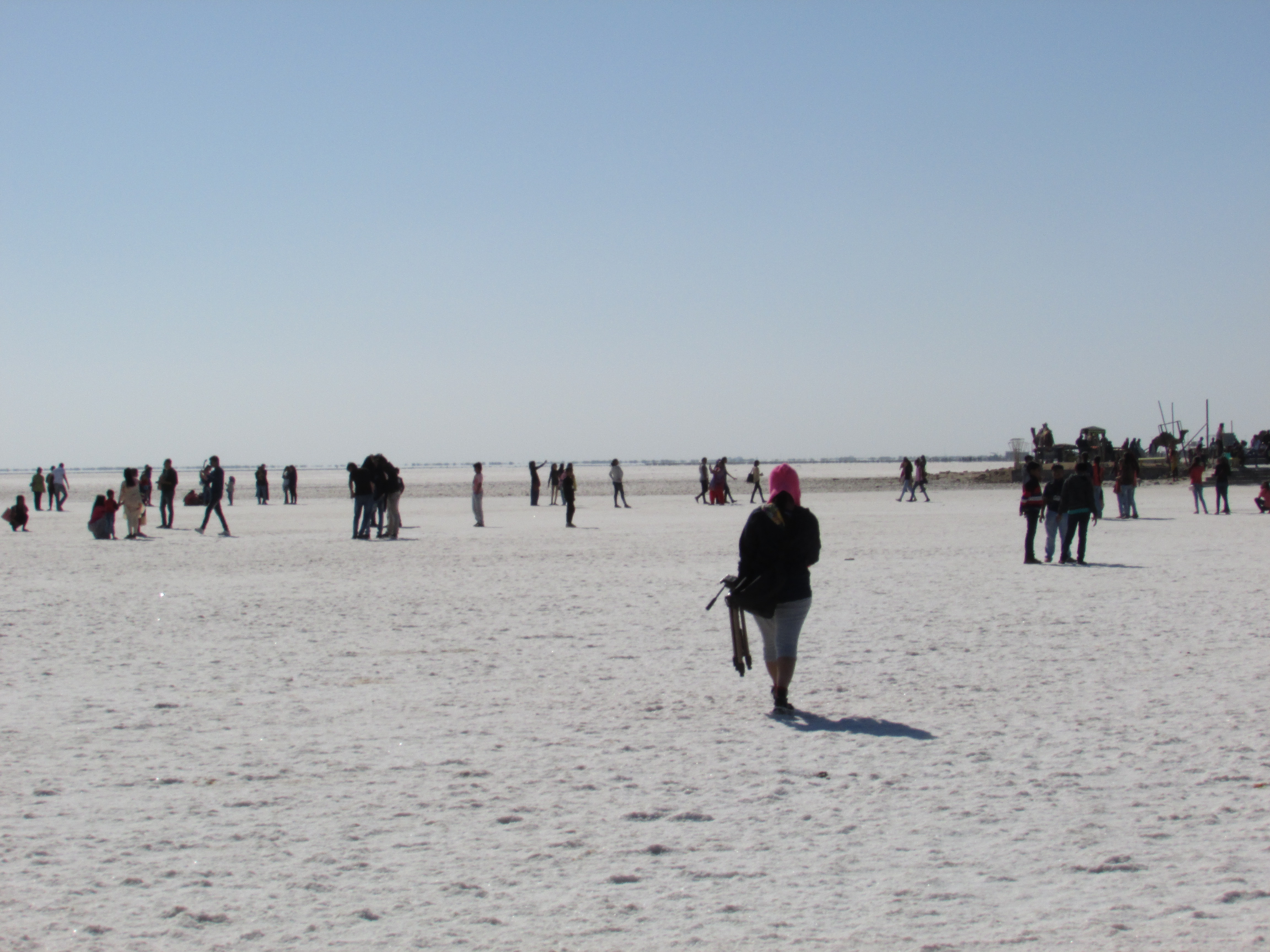 salt marshes